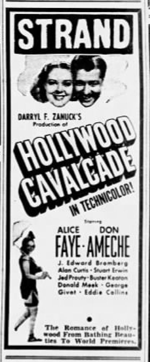 Strand Theater advertisement for the American film Hollywood Cavalcade (1939) - 20 Nov. 1939 Morning Call, Allentown PA